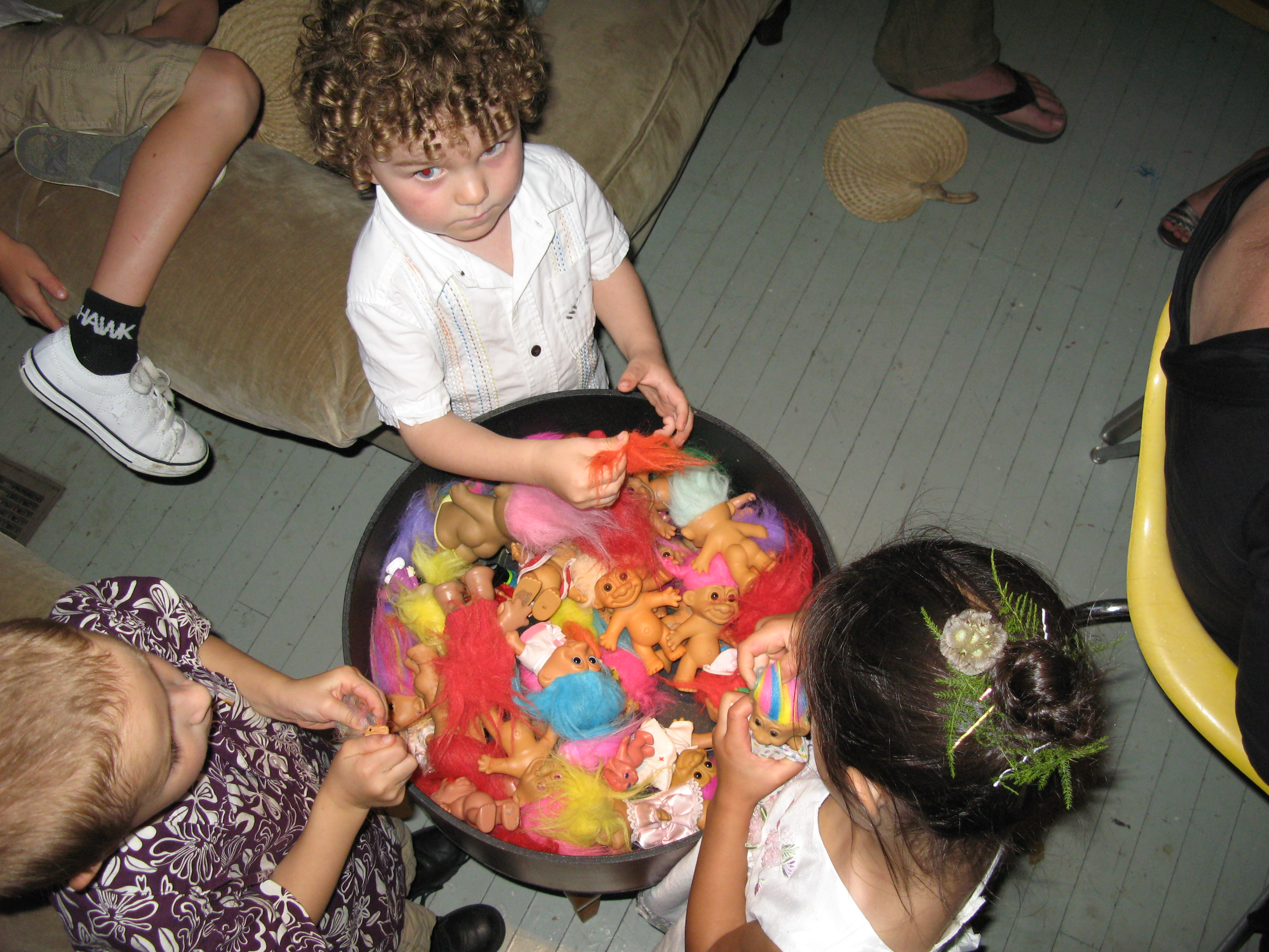 Kids playing with Trolls